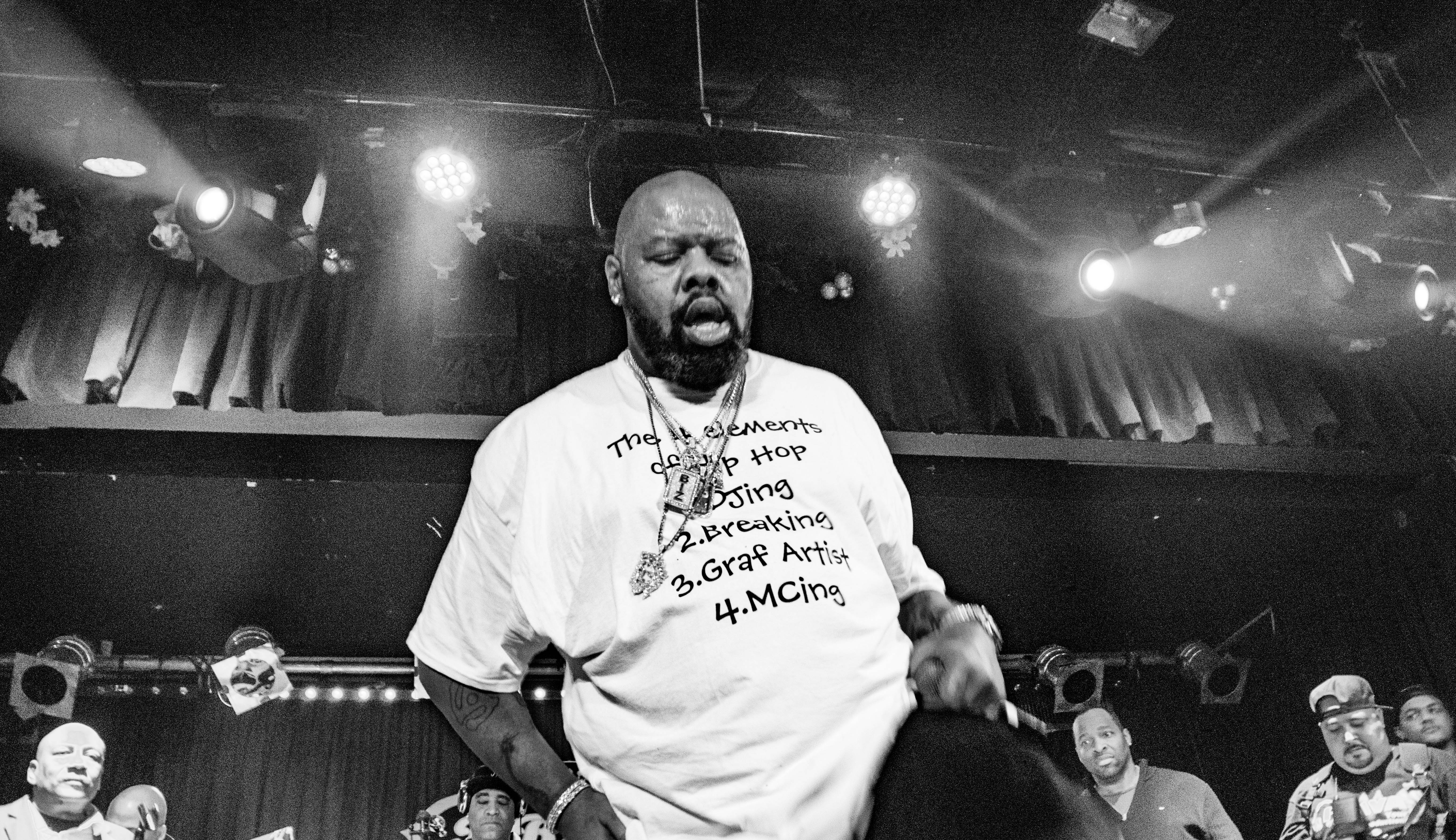 Biz Markie at 2016 Juice Crew Reunion (BB Kings NYC)